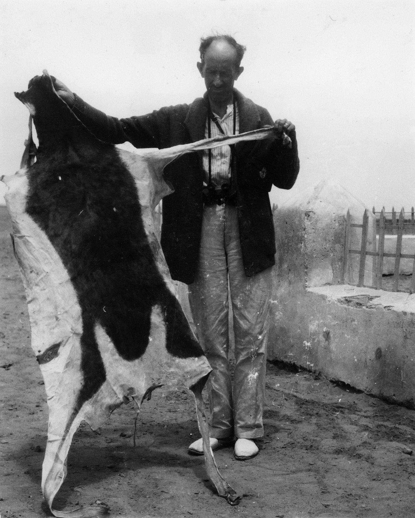 Luis Lozano Rey holding the pelt of a Gazella dama lozanoi.